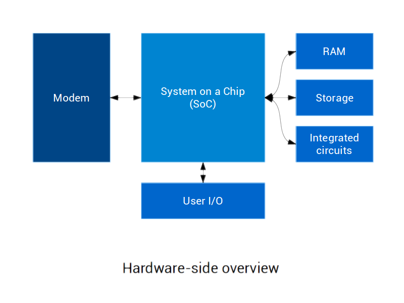 Schematics of a smartphone's internals